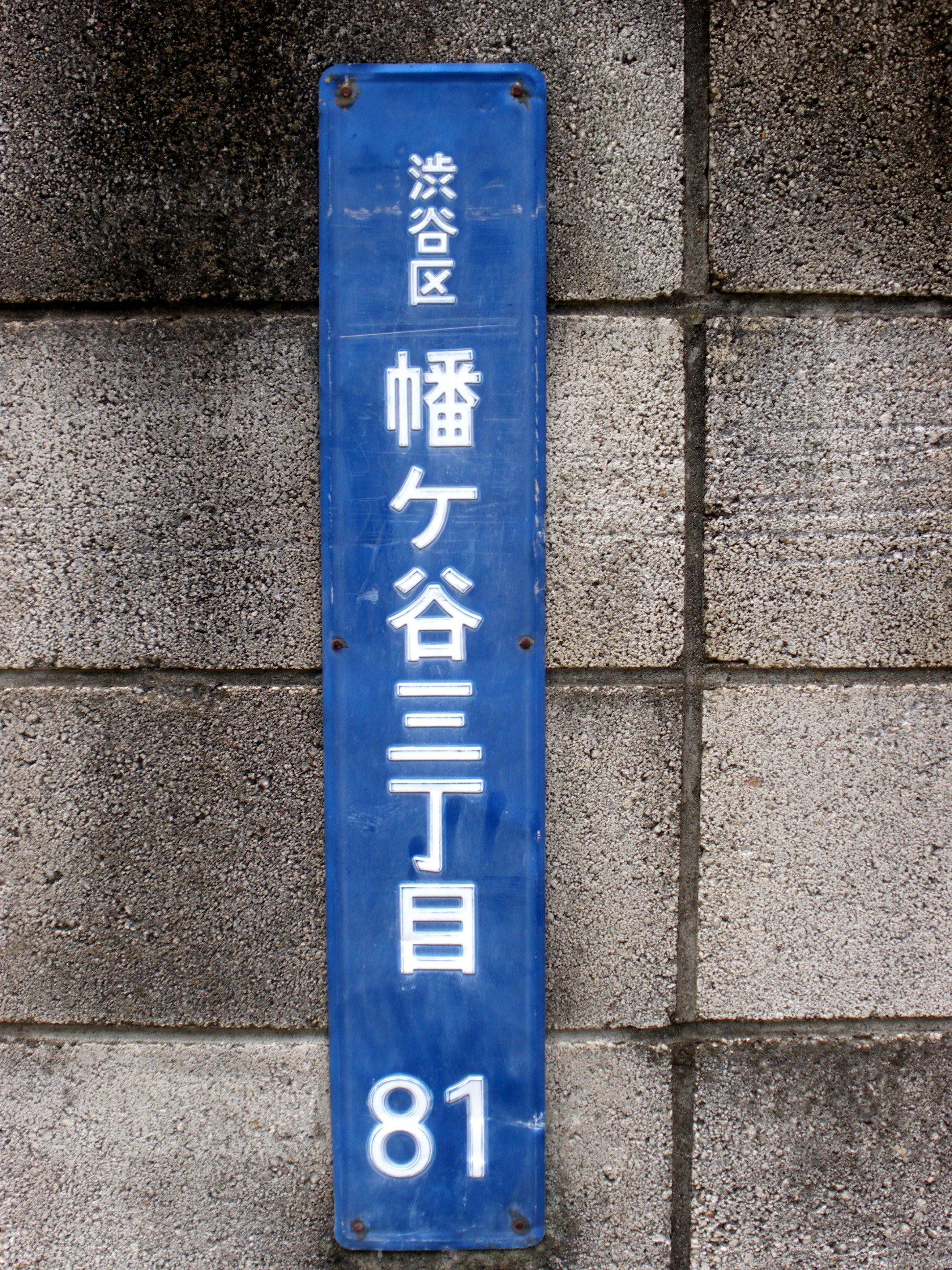 Hatagaya 3chome81(Shibuya,Tokyo)